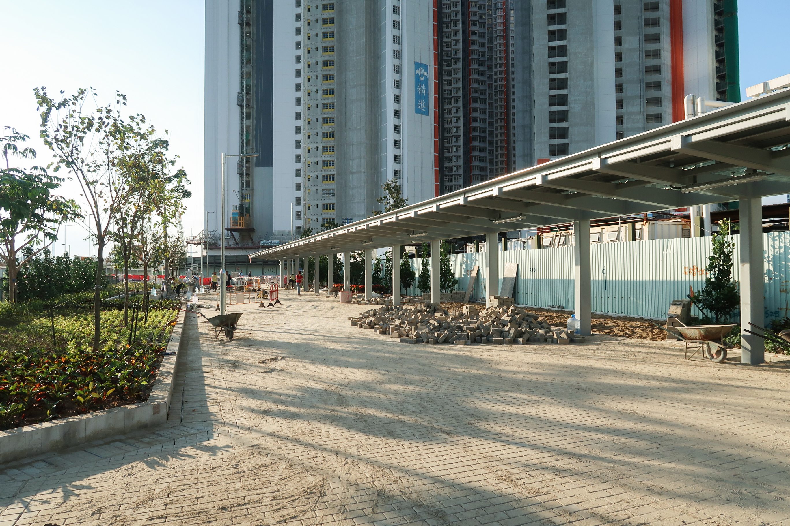 Covered walkway to Nam Cheong Station